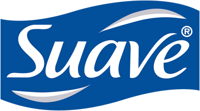 Logo for the brand Suave used from 1991 to 1999.